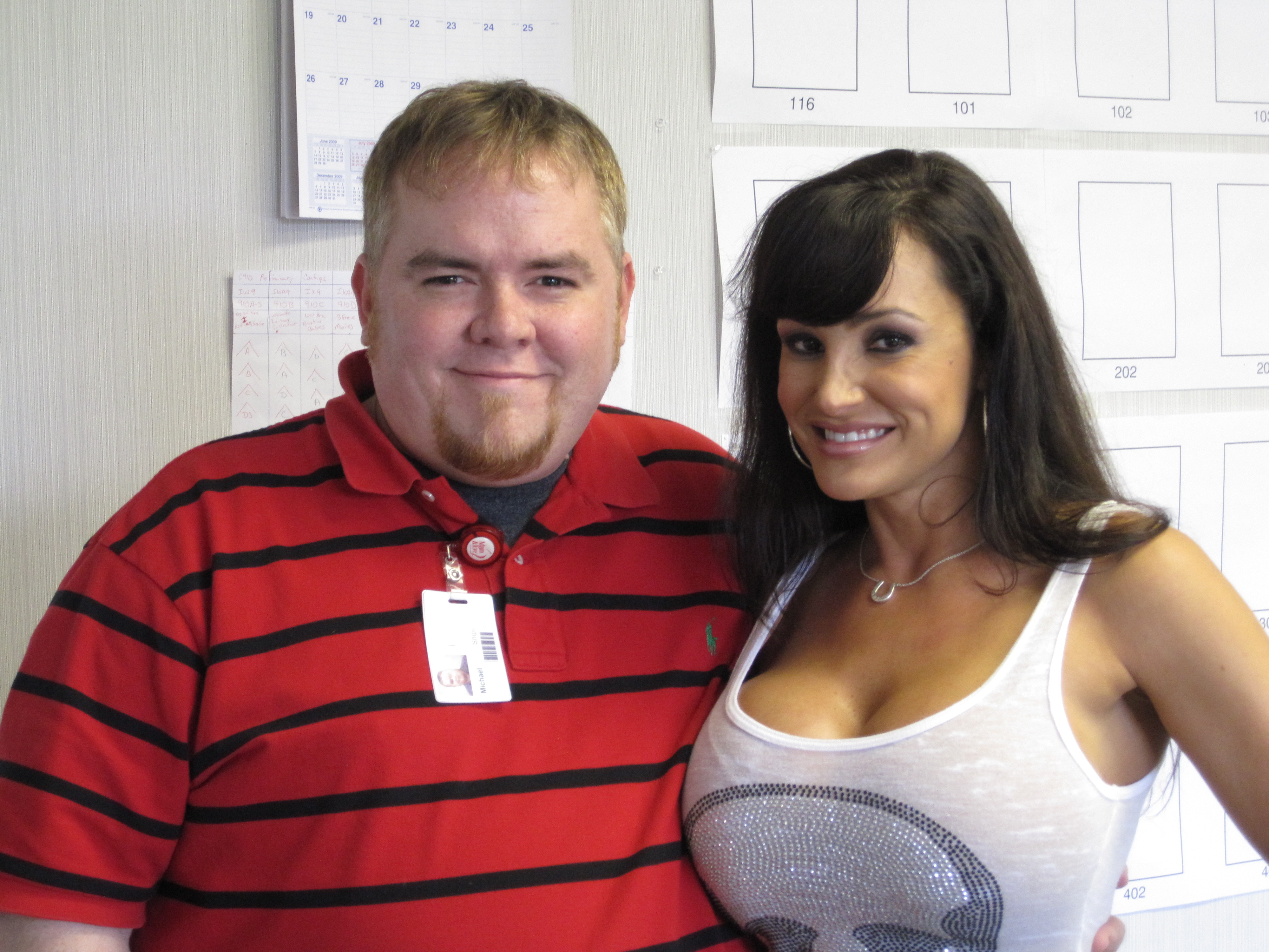 Michael and Lisa Ann at Adam and Eve signing.